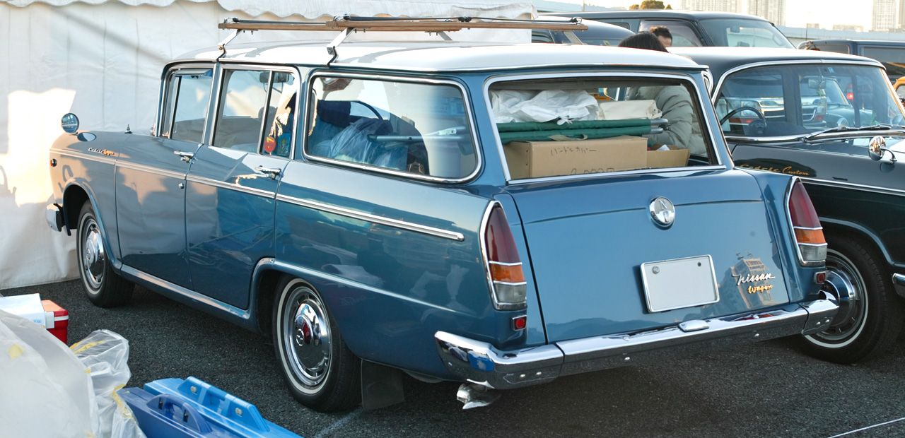 Nissan Cedric 30 Series